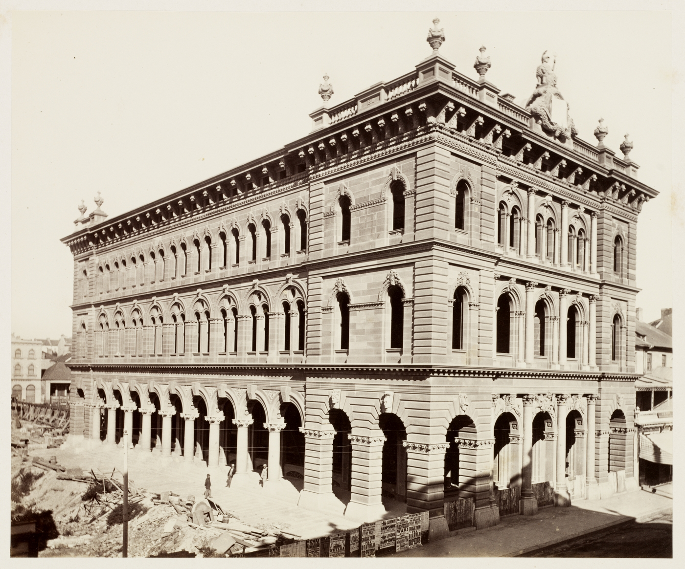 13. Post Office (Taken from the Building) SH 835